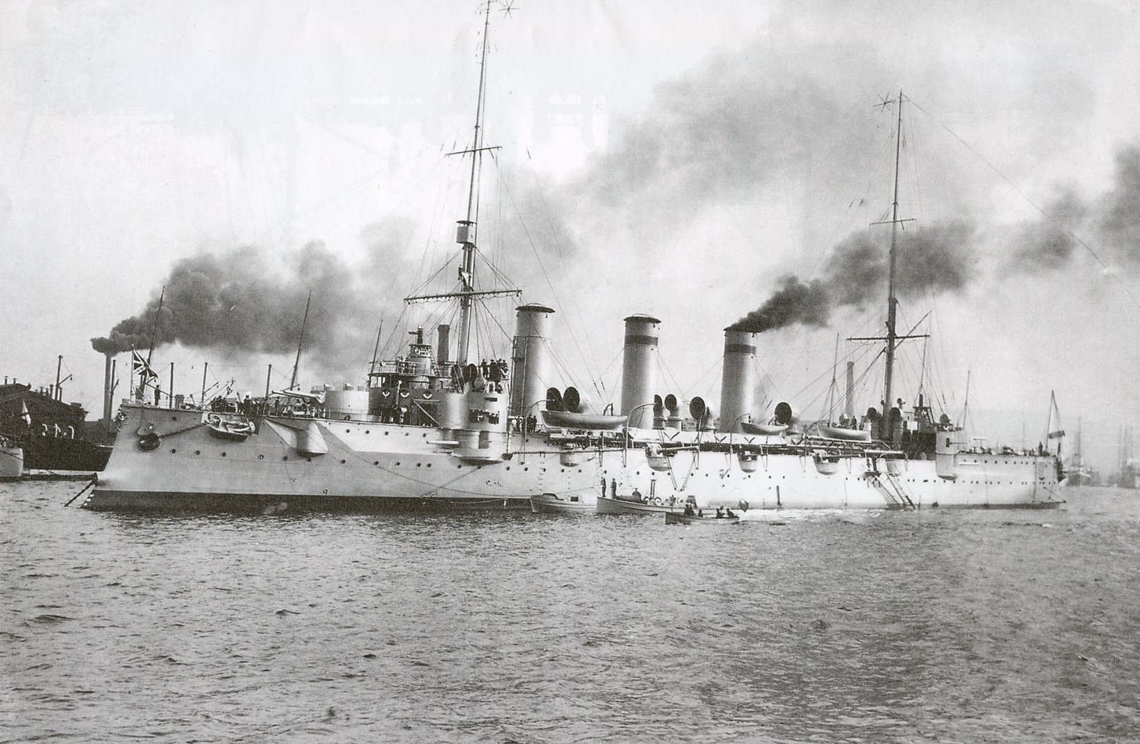 Imperial Russian cruiser Oleg on river Neva, New Admiralty 1914.